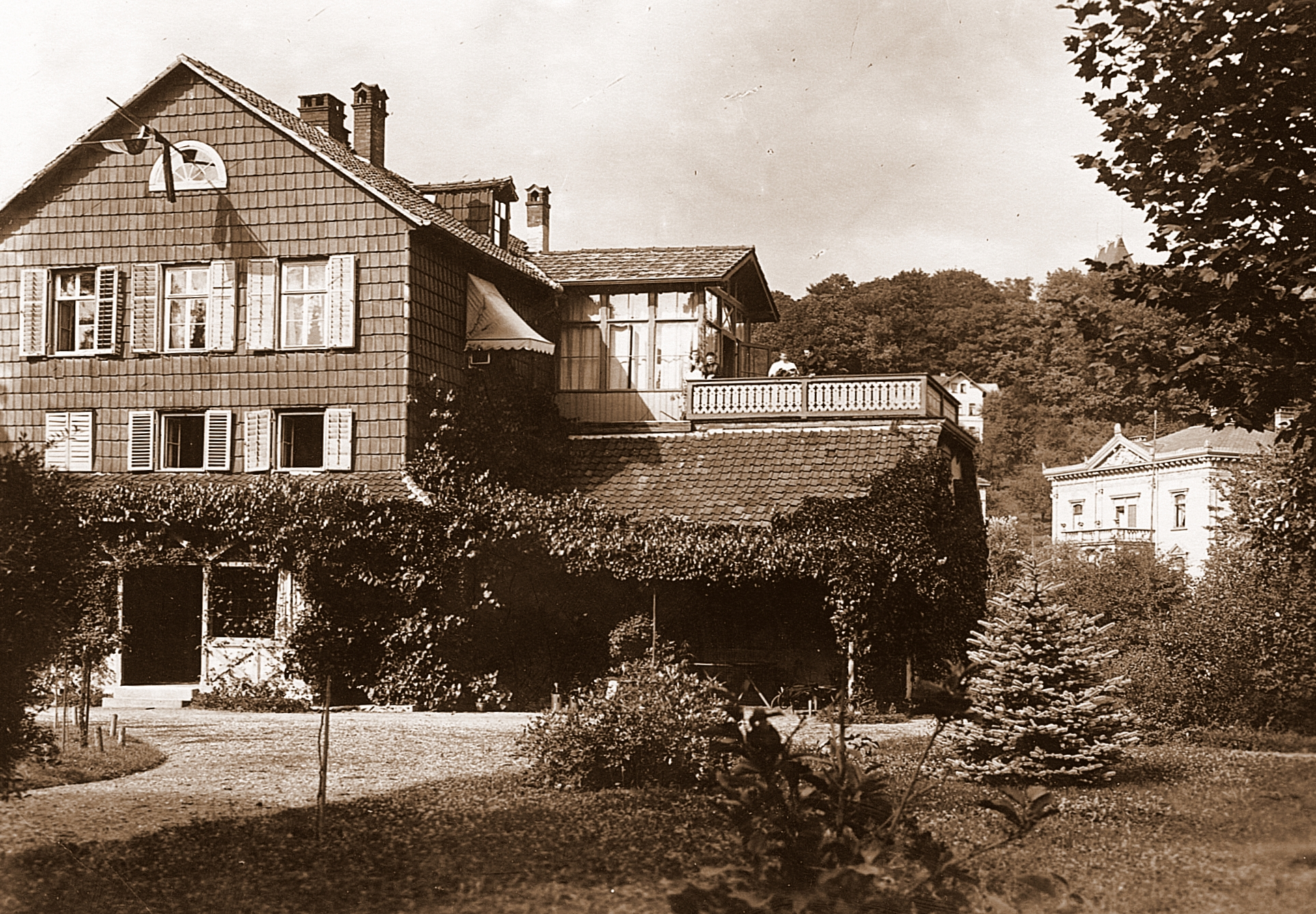 Residence of the architect and brickmaker [:de:Eduard Sältzer on the site of the former Eisenach brickworks, former entrance: Marienstraße 1 (today Marienstr. 21), today: Wartburgallee 66